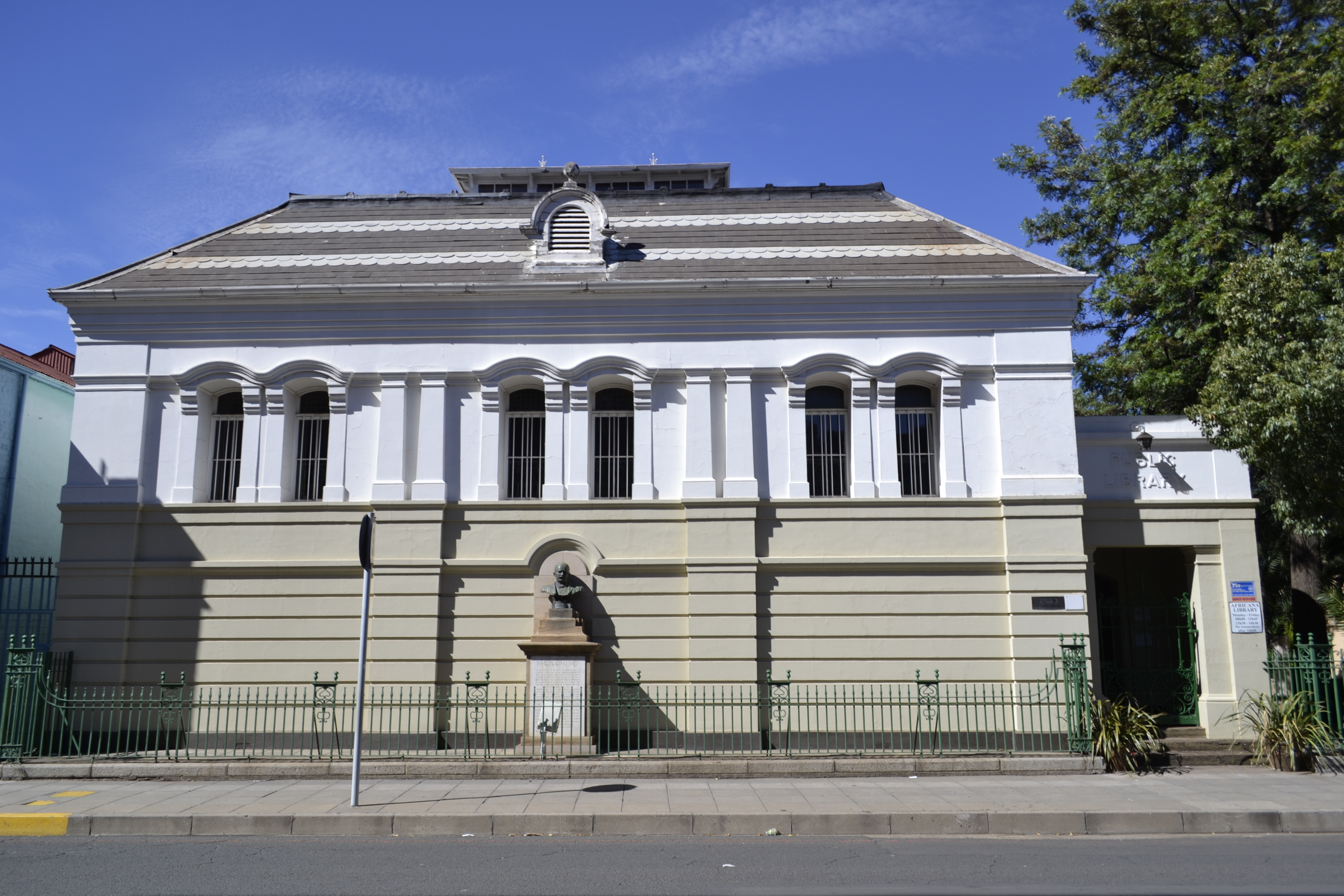 Africana Library Dutoitspan Road Kimberley Northern Cape South Africa This media shows a South African Protected Site with SAHRA file reference 9/2/049/0018.